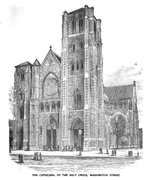 Drawing of the Cathedral of the Holy Cross, Boston circa 1881